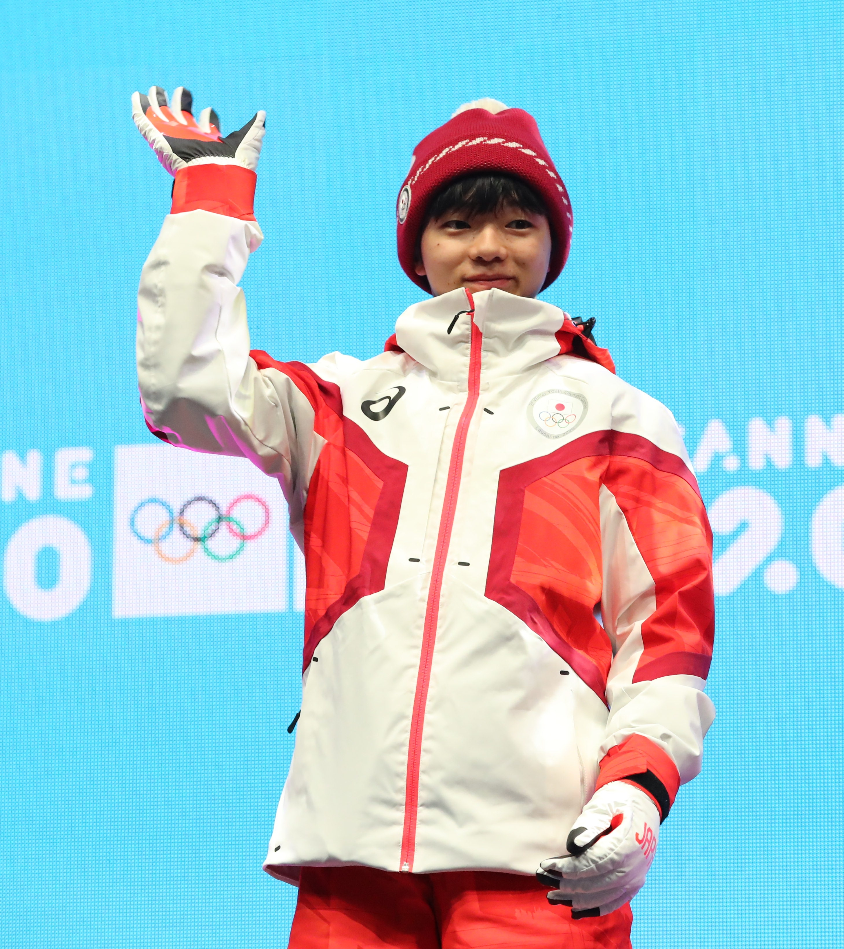 Medal Ceremony Day 3, 2020 Winter Youth Olympics in Lausanne